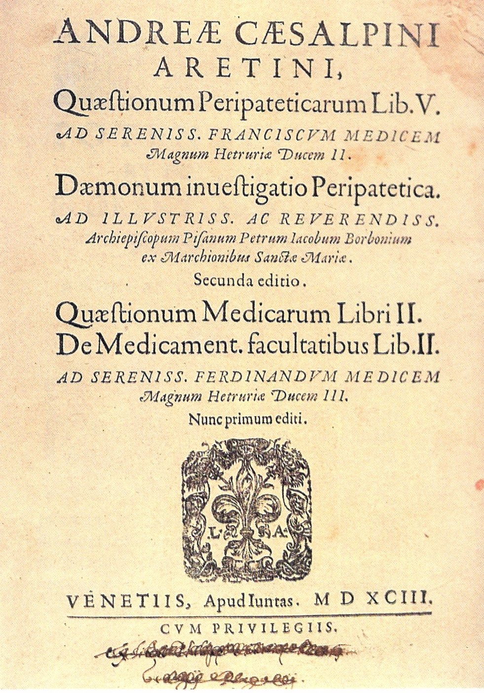 Cover of a compilation (1693) of medical and philosophical works of Andrea Cesalpino (1519-1603); it contains his Peripateticarum quaestionum Libri V (1569), Daemonum investigatio peripatetica (1580), Quaestionum medicorum libri II (1593), and De medicamentis facultatibus Libri II (1593).